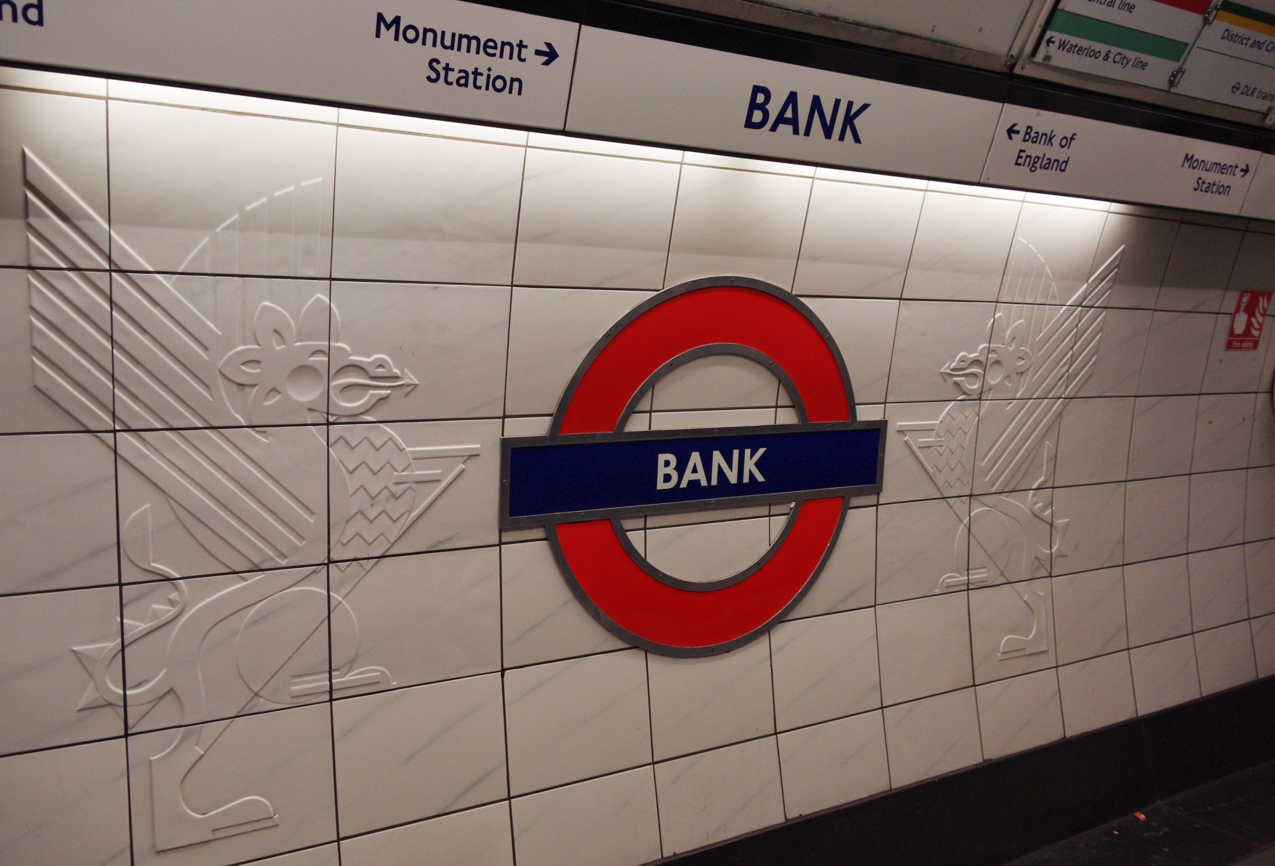 London Underground roundel on the wall of the northbound Northern Line platform at Bank.